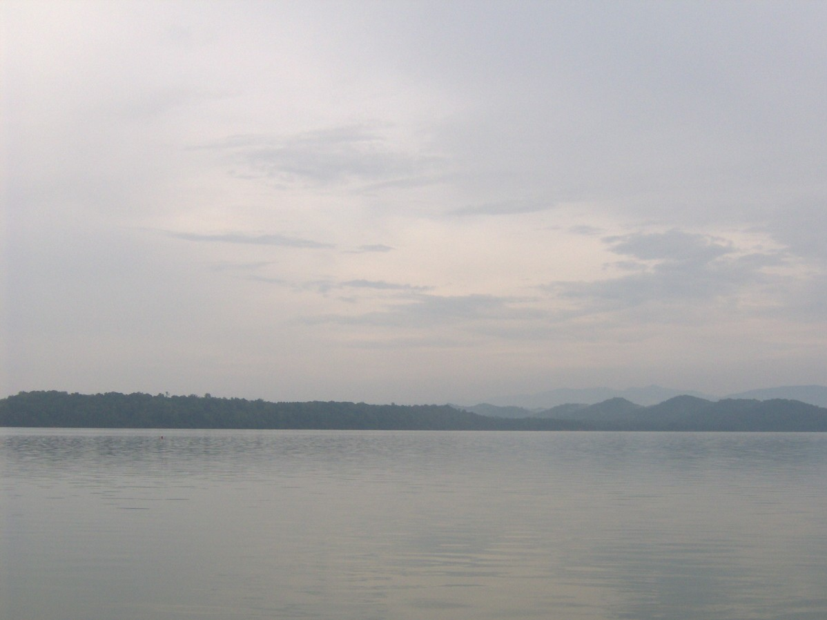 The now-submerged site of the Cherokee villages, Toqua and Tomotley along the Little Tennessee River (Tellico Lake) in the Southeastern U.S. Timberlake visited the Tomotley in 1761, and gave a vivid description of the return of a Cherokee war party. According to Cherokee lore, this area was the home of the mythical Great Fish, or "Dakwa."